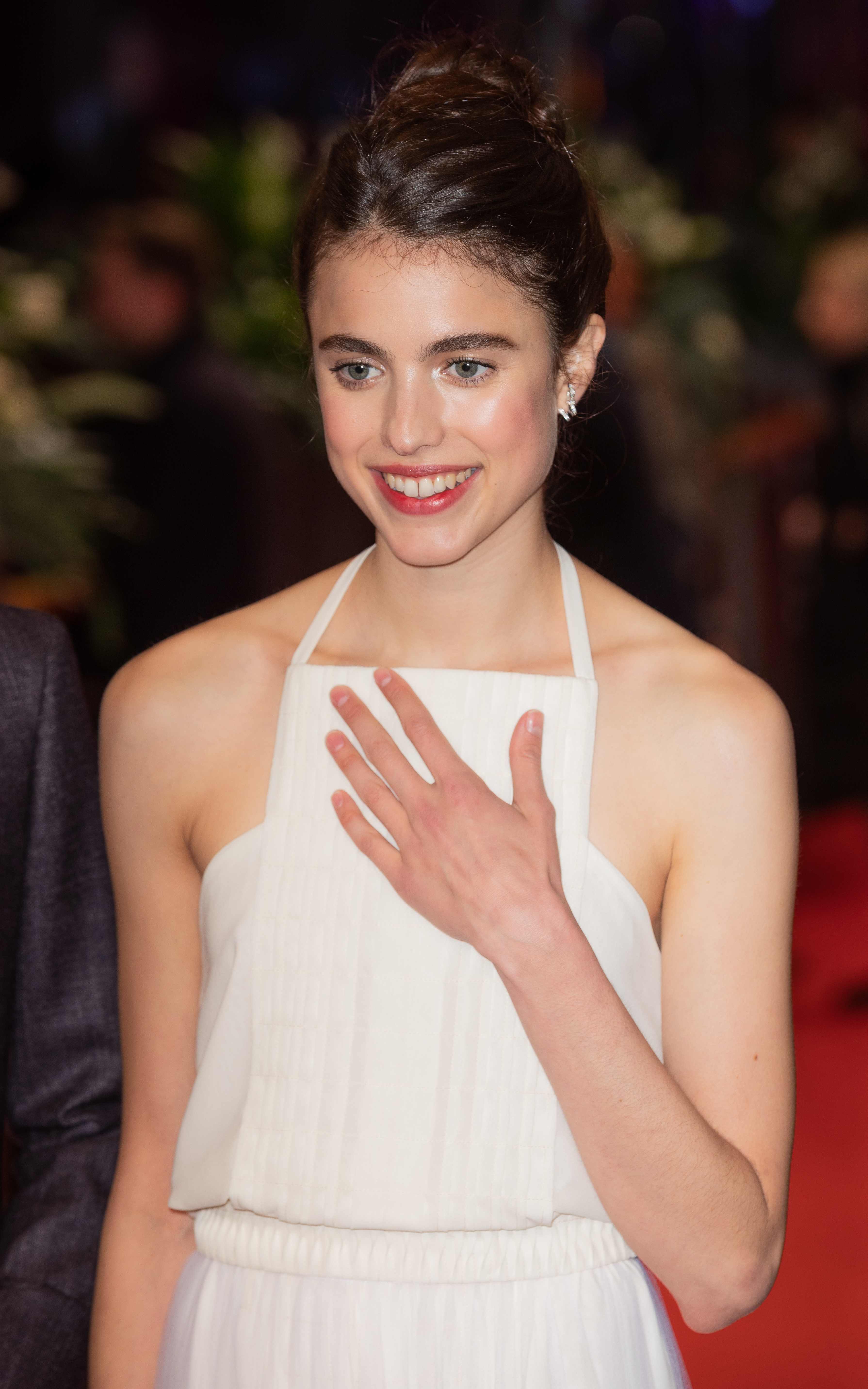 Margaret Qualley at the Berlinale 2020